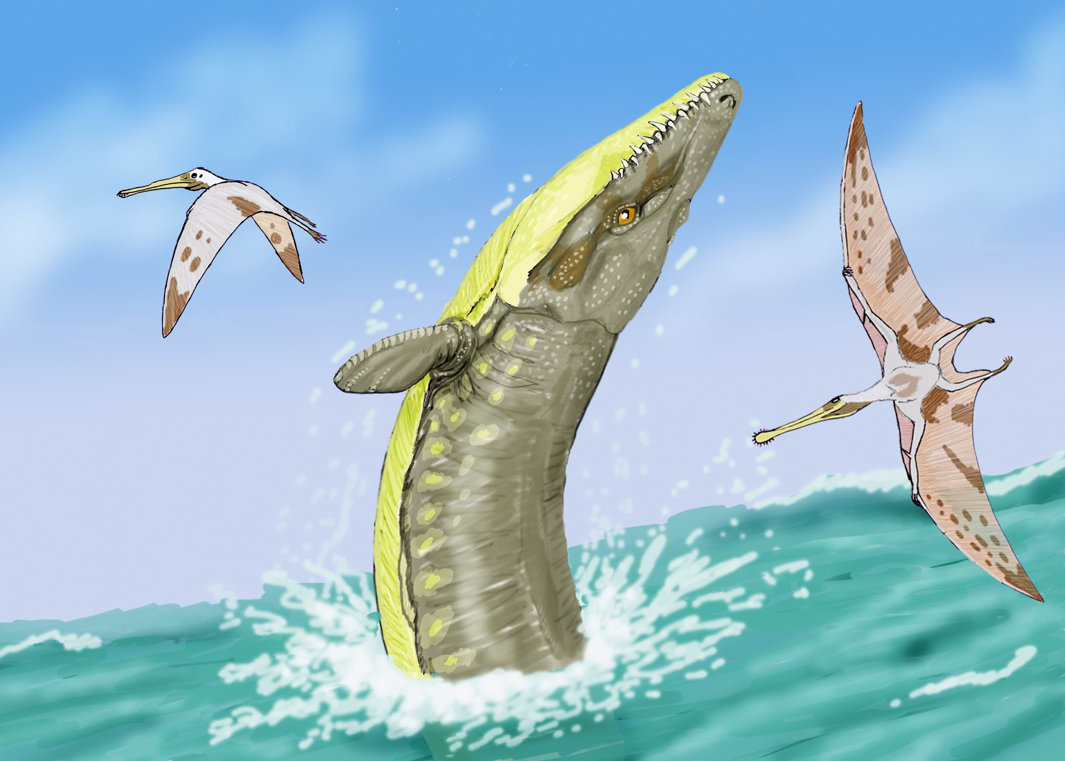 Life restoration of Dakosaurus maximus (breaching, center) and Gnathosaurus subulatus (flying).